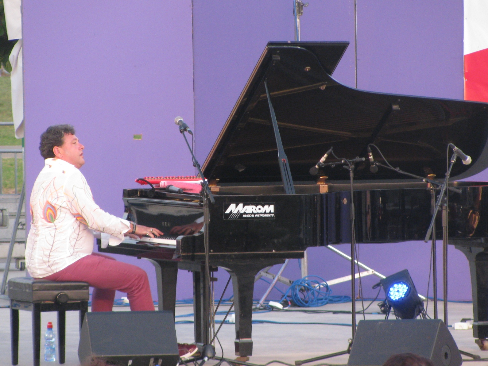 Summer Concert, Entertainment